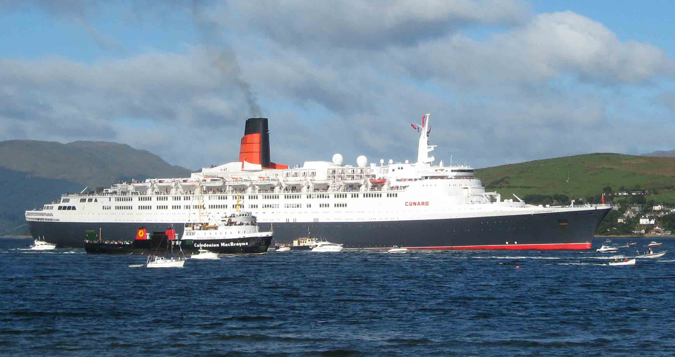 RMS Queen Elizabeth 2 on her last visit to the Clyde where she was built. Caledonian MacBrayne ferry MV Saturn in the foreground.